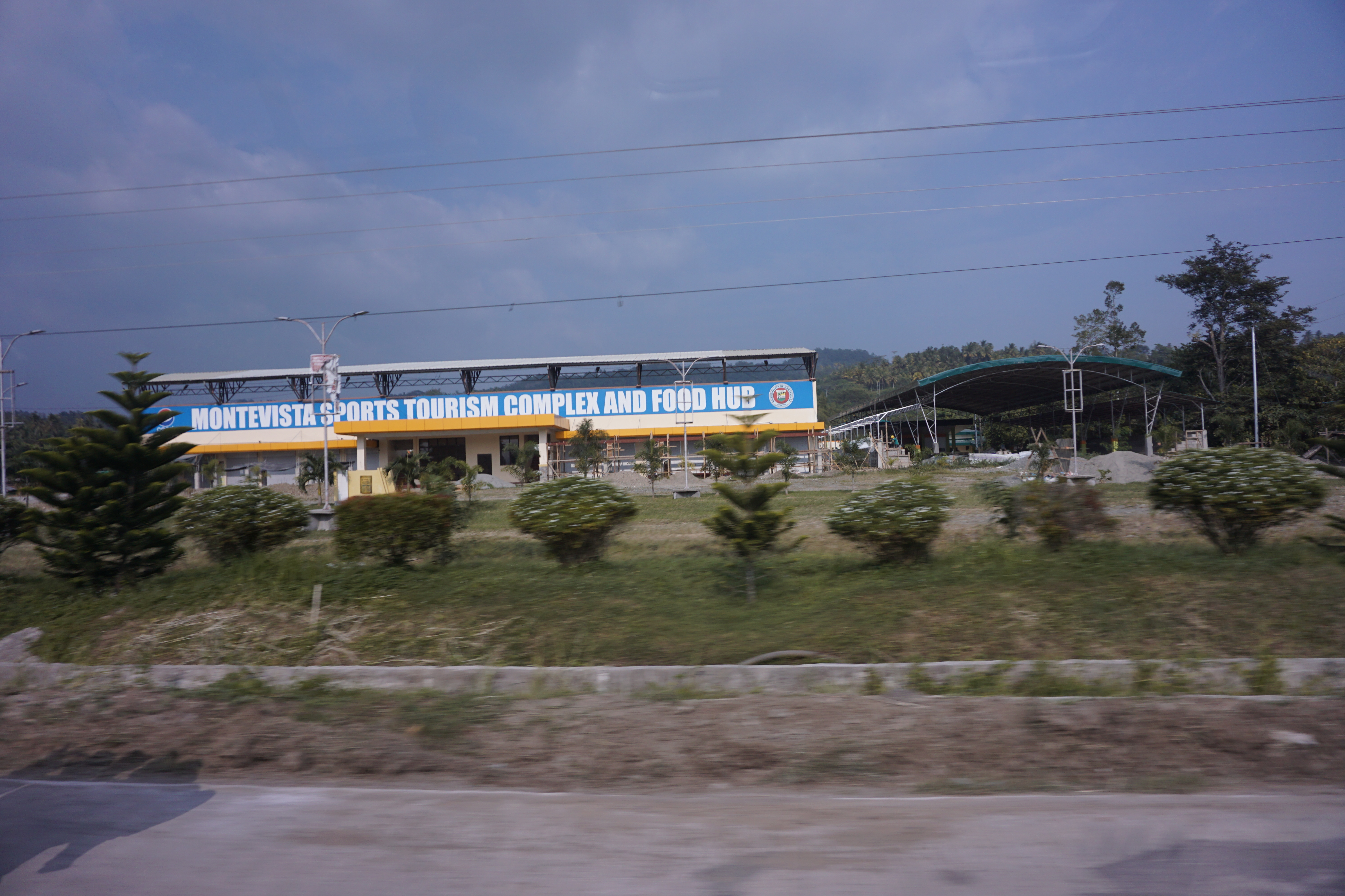 Montevista Sports Complex was built in 2017 with a capacity of 1,000-1,500 people and the only modernized sports complex in Compostella Valley Province.